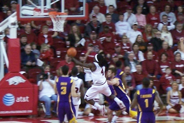 Courtney Fortson balls on air for the University of Arkansas basketball team.